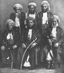 Sayyed Bargash sultan of zanzibar with his ministers